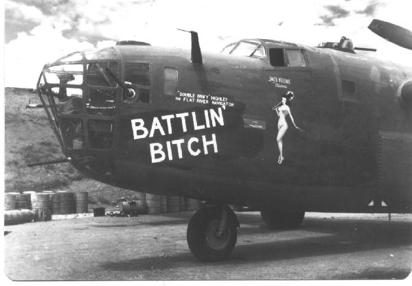 Catalog #: 00640 Subject: The Flying Tigers - China Title: 14th Air Force B-24 with nose art "Battlin' Bitch" Repository: San Diego Air and Space Museum Archive